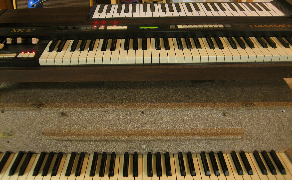 Wurli, Hammond, and roll-up keyboard Roll-up piano Hammond XK-2 Wurlitzer 112 tube electric piano (1955-)